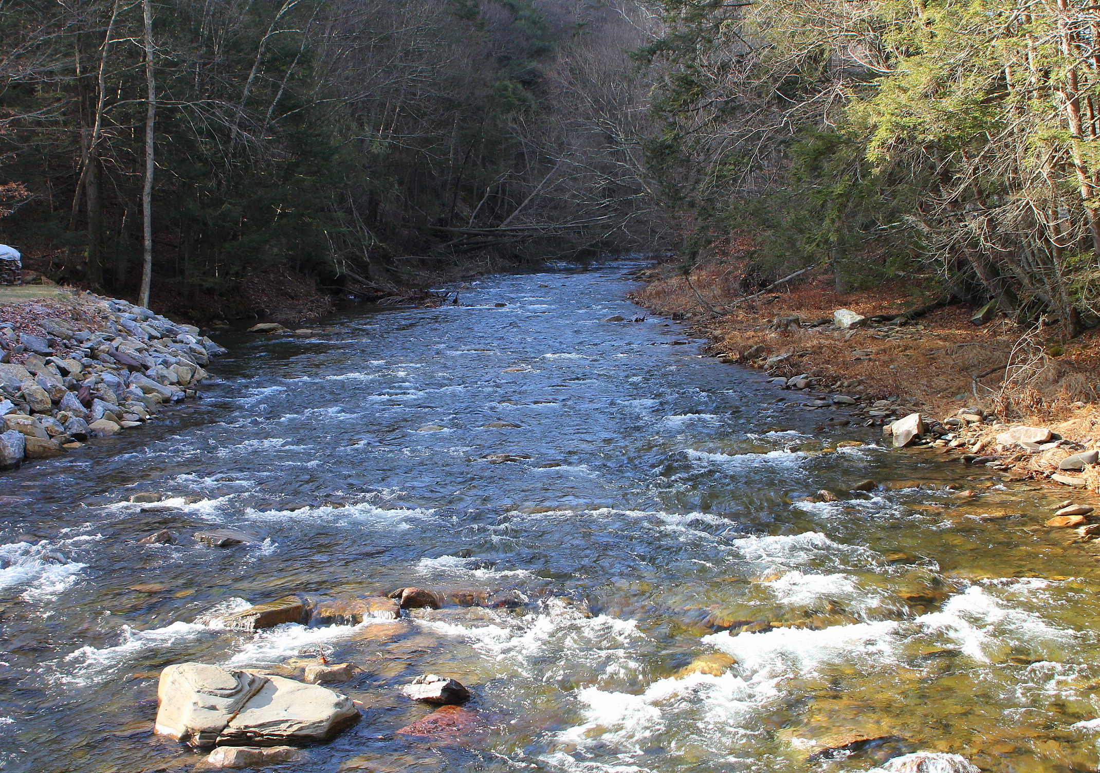 West Branch Fishing Creek looking upstream near Elk Grove. Picture taken from Central Road/State Route 4049.